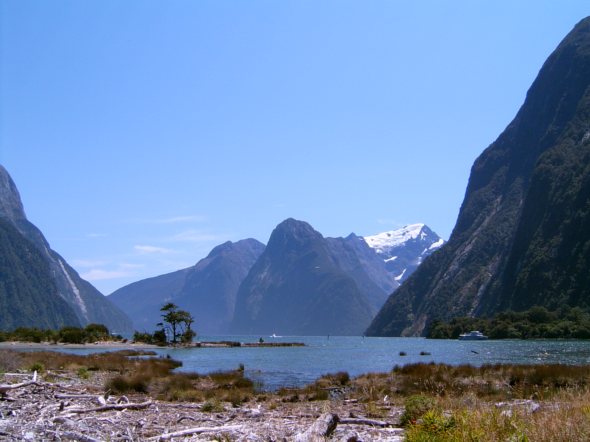 Milford Sound, in New Zealand.